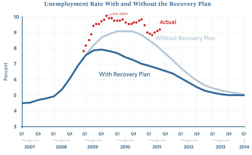 Graph showing projected monthly U.S. Unemployment Rate with and without the American Recovery and Reinvestment Act of 2009 (also known as the "Stimulus Package") versus the actual U.S. Unemployment Rate. The projected unemployment rate with and without ARRA 2009 is from President Barrack Obama's administration presented in January 2009 to justify the legislation: Romer, Christina; Bernstein, Jared (January 10, 2009), The Job Impact of the American Recovery and Reinvestment Plan ( The actual unemployment rate is from the U.S. Labor Department.